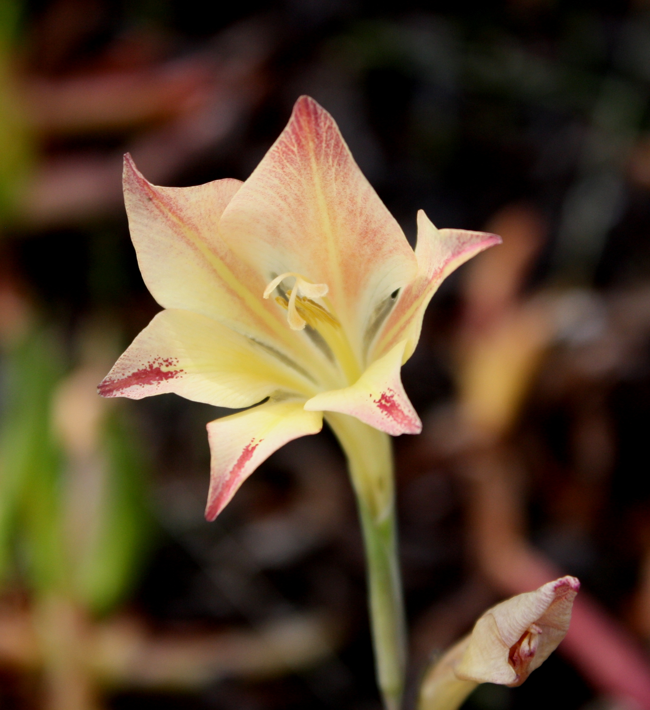 Silvermine, Cape Town